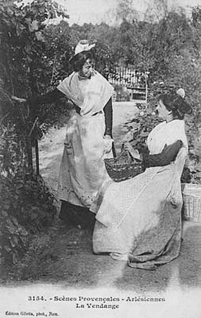 Vintange in Provence 1903